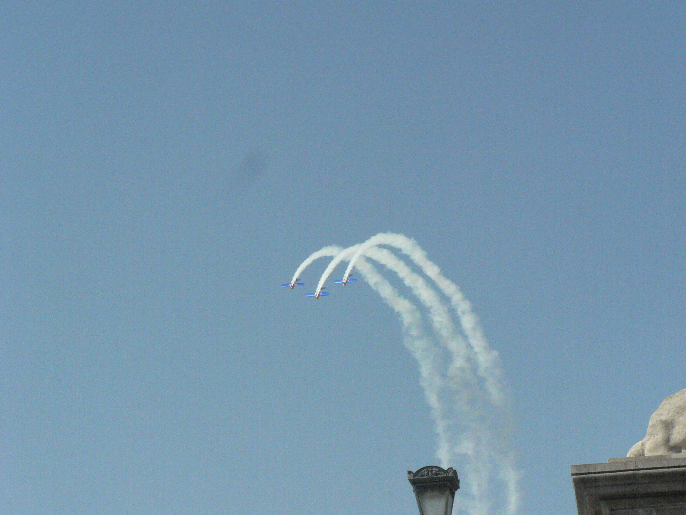 Live on the 20th of August, 2006. Budapest, the Danube embarkemant. Red Bull Air Race 2006. In 2001 Red Bull asked Besenyi Péter, hungarian aviator to work on the concept of an air race